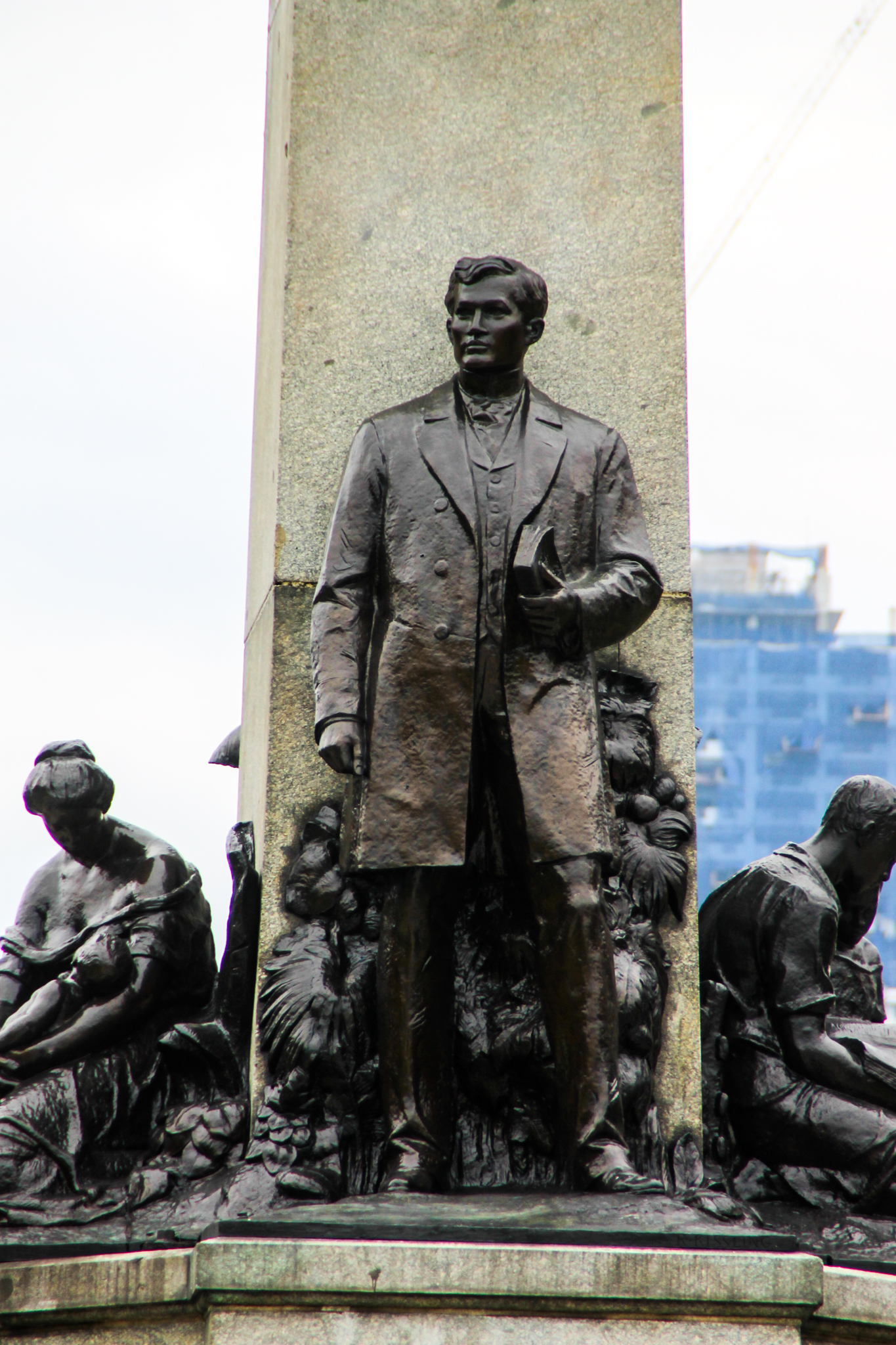 Close-up view of Jose Rizal's statue at the Rizal Monument, Rizal Park, Manila, Philippines. The sculptor of the monument, Richard Kissling, inscribed his name at the bottom of Jose Rizal's figure, at the right side (visible when viewing the image at full size.